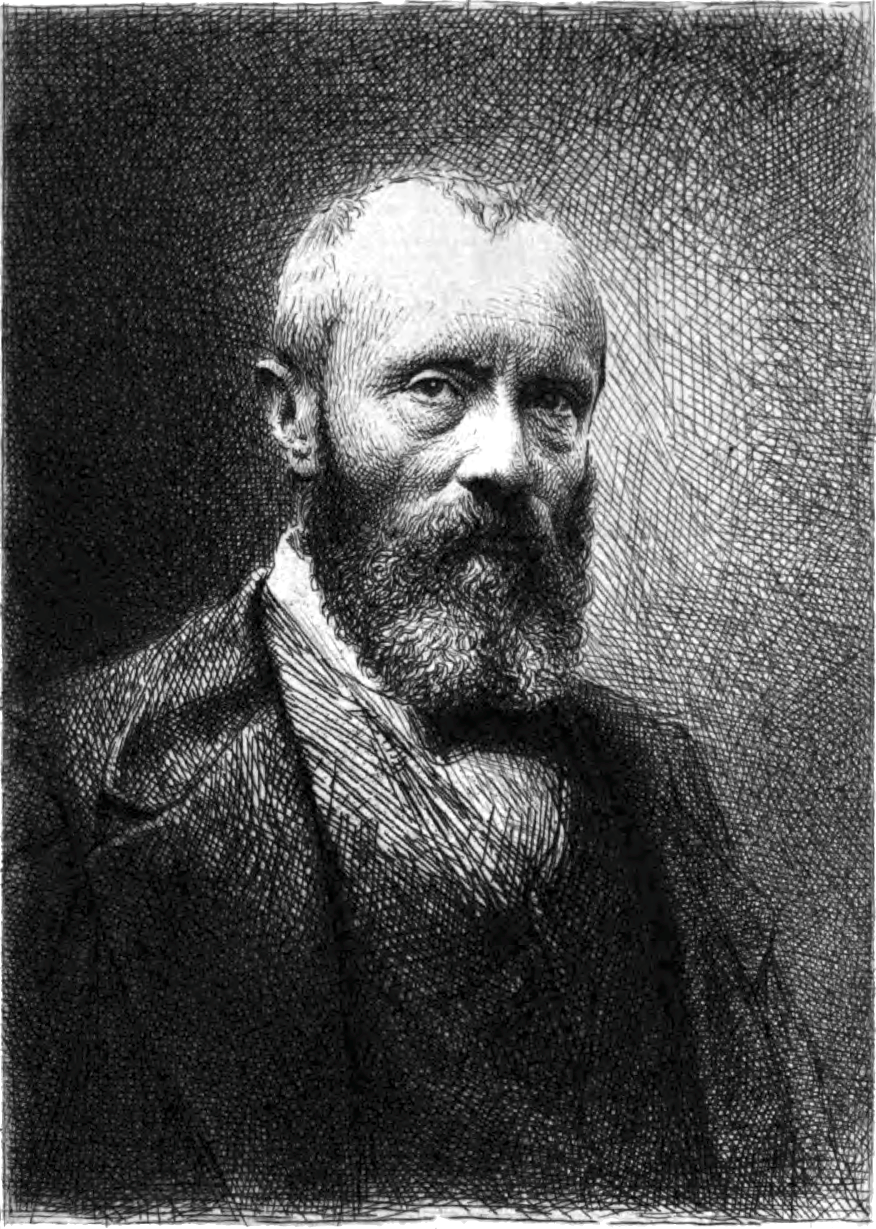 Engraving of Théophile Thoré-Bürger (1807-1869), French art critic